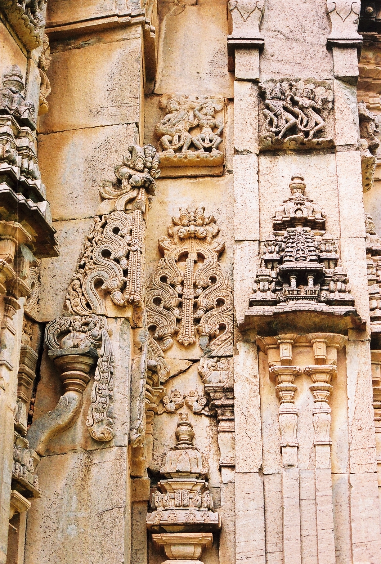 This image was taken by me (Dinesh Kannambadi) at the Dodda Basappa Temple in Dambal, Gadag district, Karnataka state, India